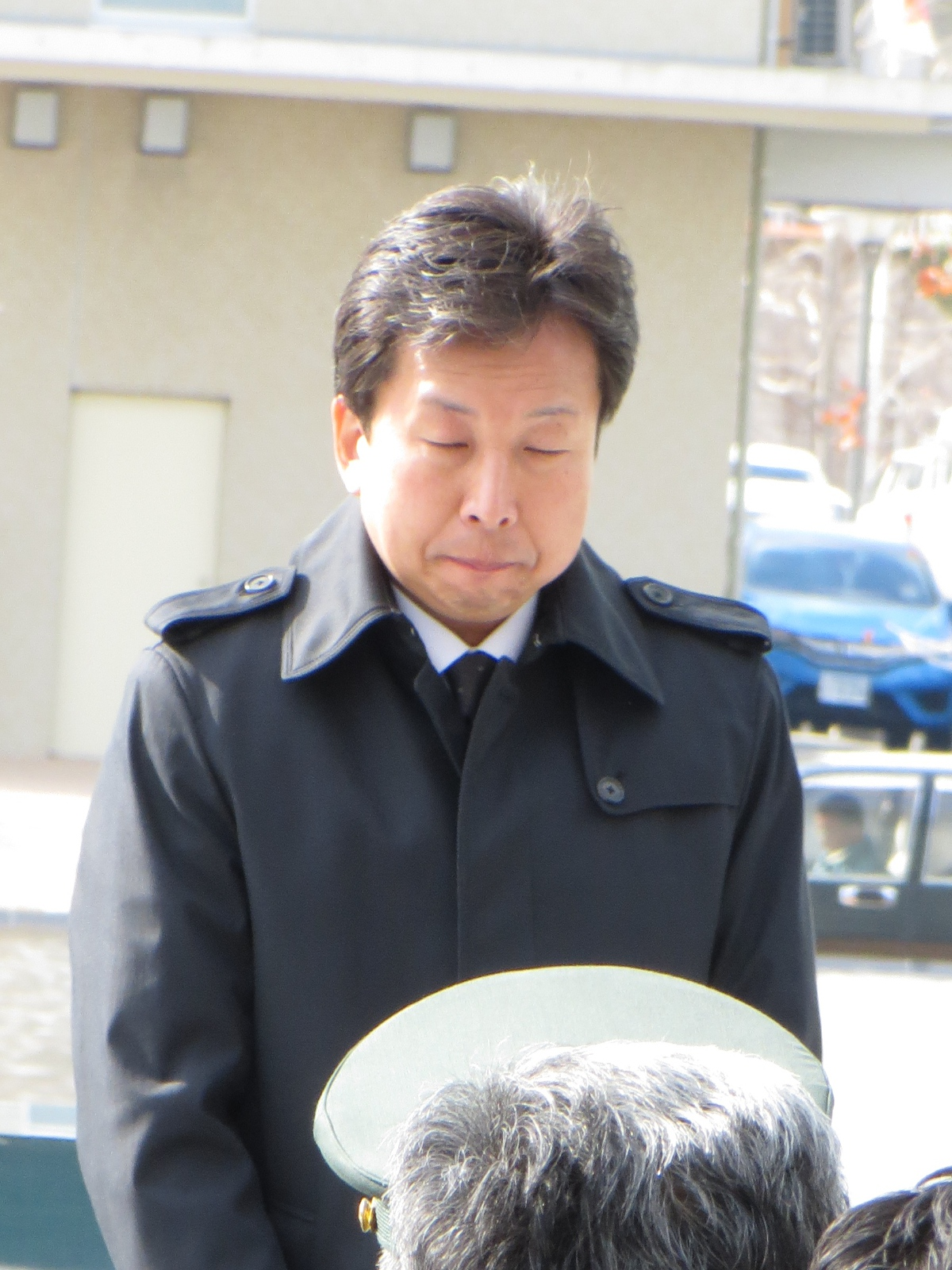 Masaki Ogushi (Member of the House of Representatives of Japan).